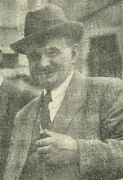 W. T. Kelly, head of the arbitration department at the Workers' Union and future Labour Party Member of Parliament